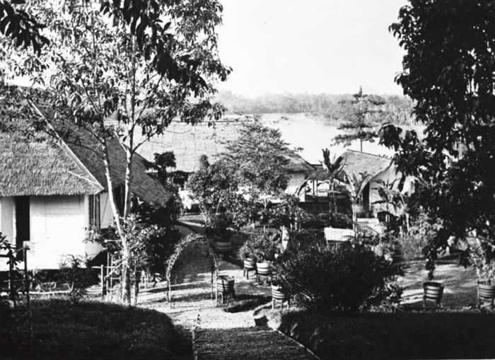 House of Europeans at Purukcahu along the Barito river